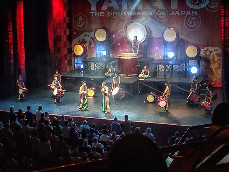 Yamato on tour 2016, Alte Oper in Frankfurt am Main